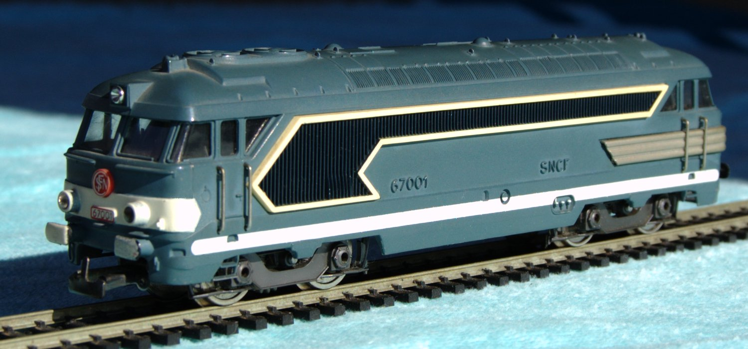 An old scale model of a BB 67000, by Jouef.